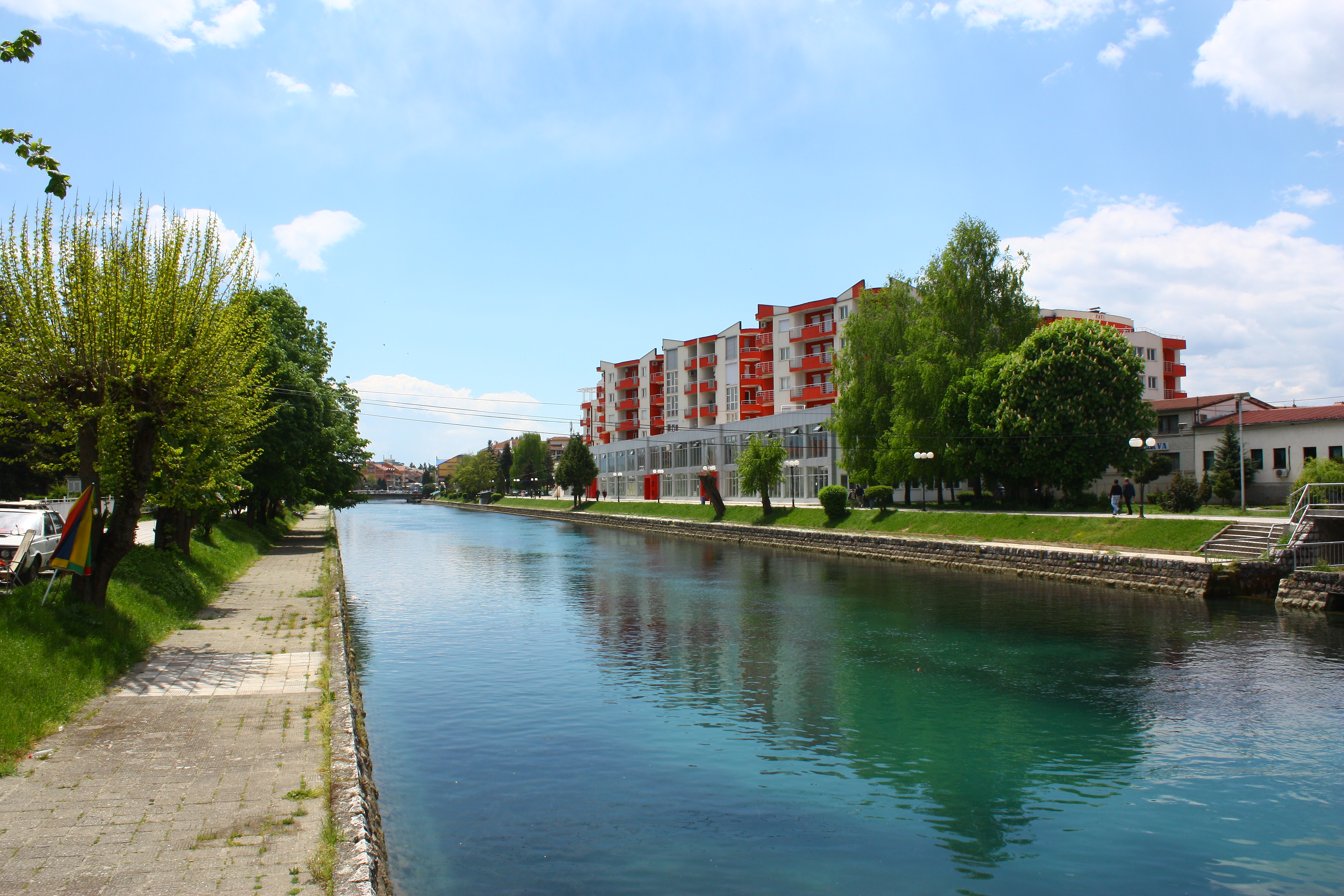 Struga, Macedonia